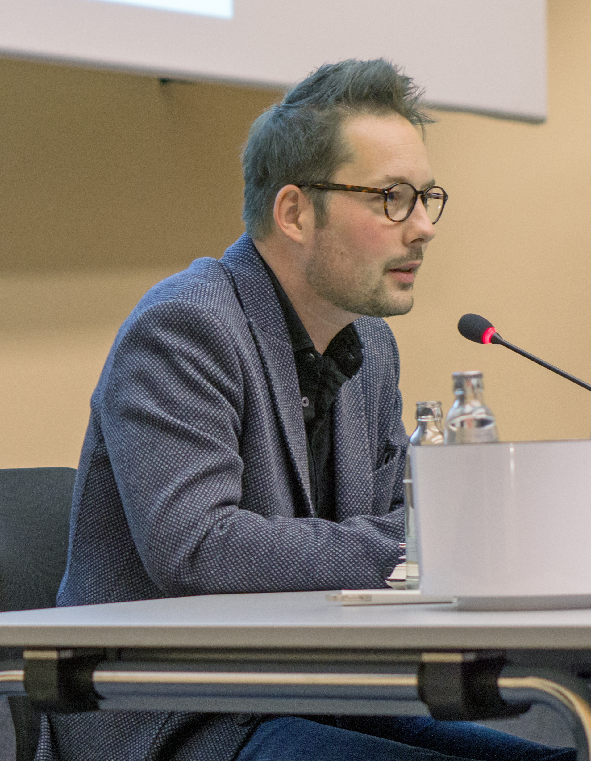 Tom Hillenbrand during a lecture in the auditorium of the Cercle Cité in Luxembourg City